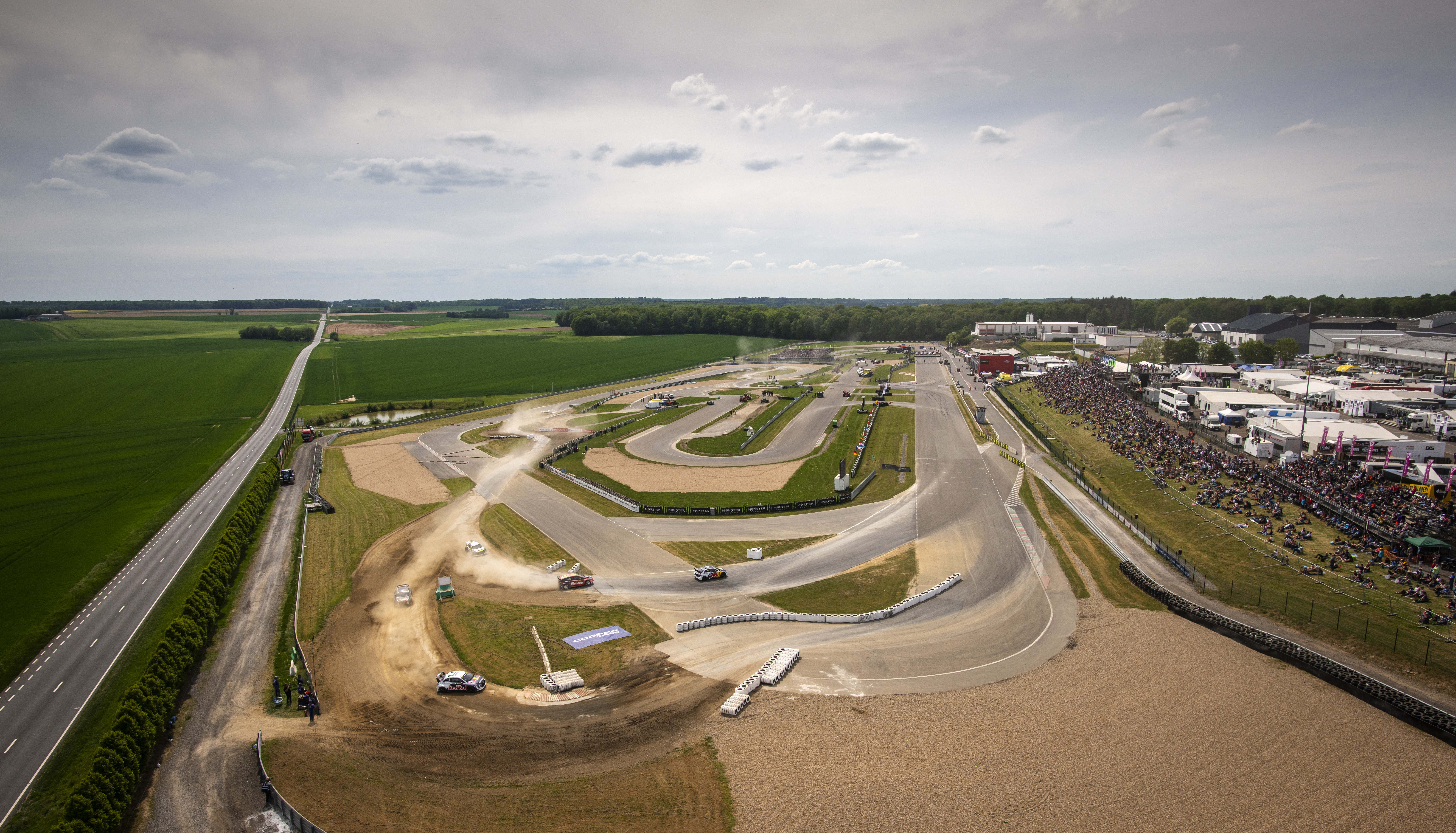 2018 FIA World Rallycross Championship // Round 3, Belgium, Mettet // Credit: EKS Audi Sport